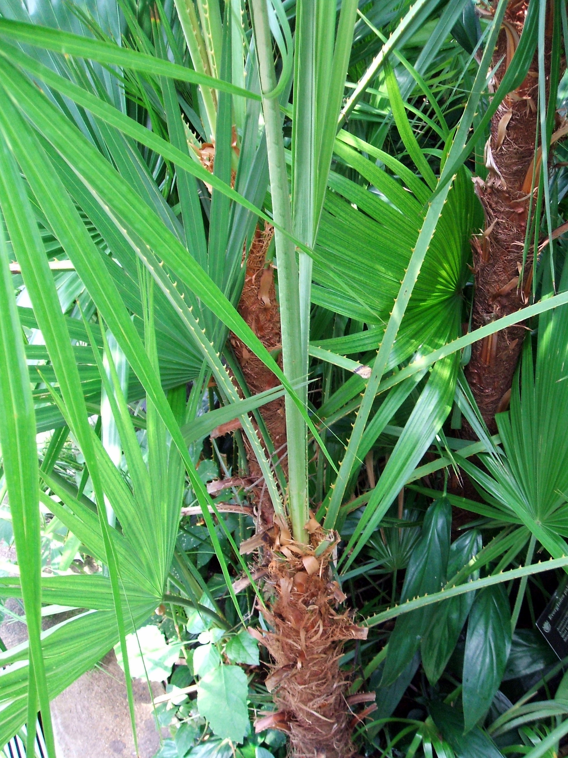 Acoelorraphe wrightii, at the Missouri Botanical Garden